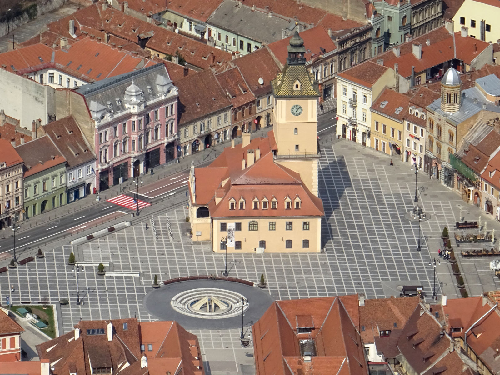 An empty Piata Sfatului (Council Square), Brasov, during the 2020 Covid pandemics